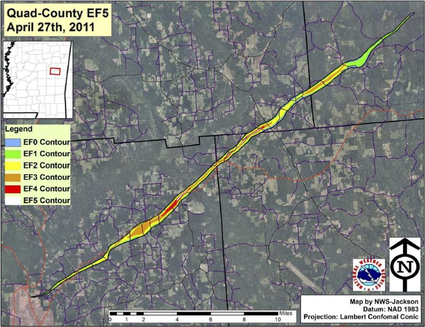 Damage swath of the 2011 Philadelphia, Mississippi, tornado based on the Enhanced Fujita scale